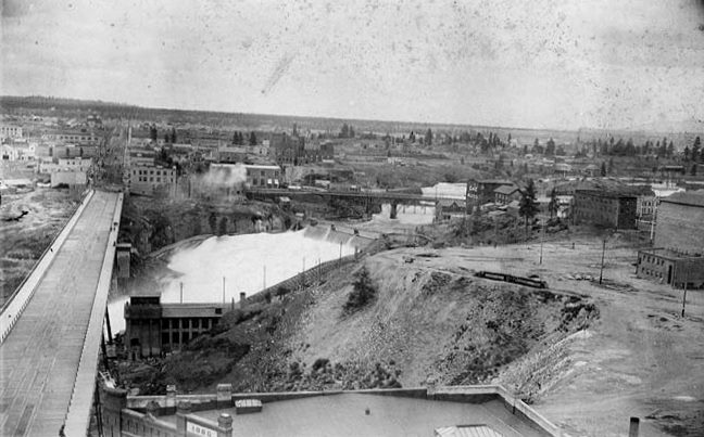 Old photo of the Spokane Falls in Spokane.